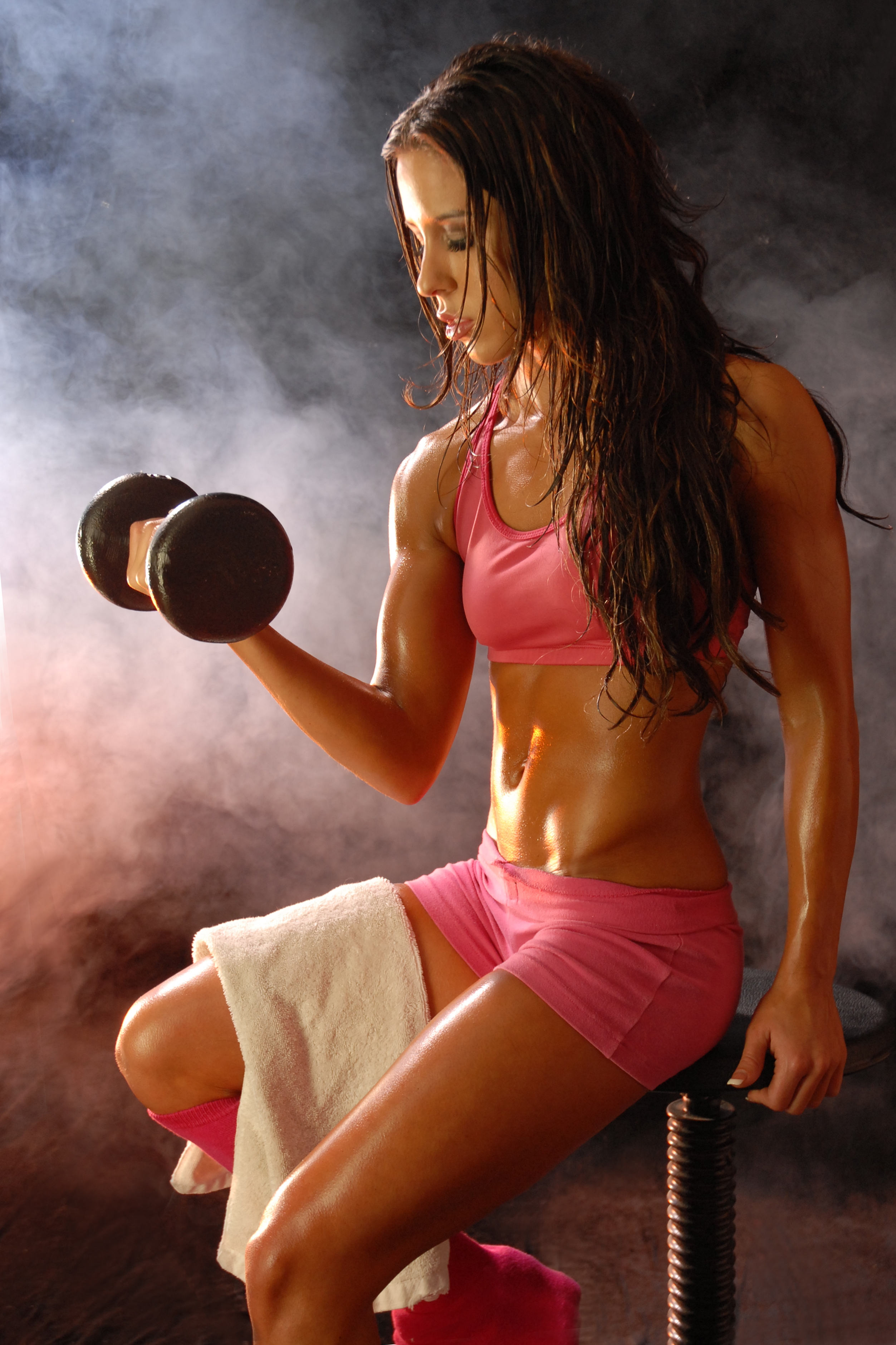 Fitness Model posing with dumbell. Photo by Glenn Francis of